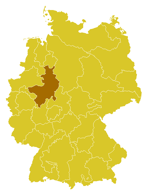 map archdioecese Paderborn